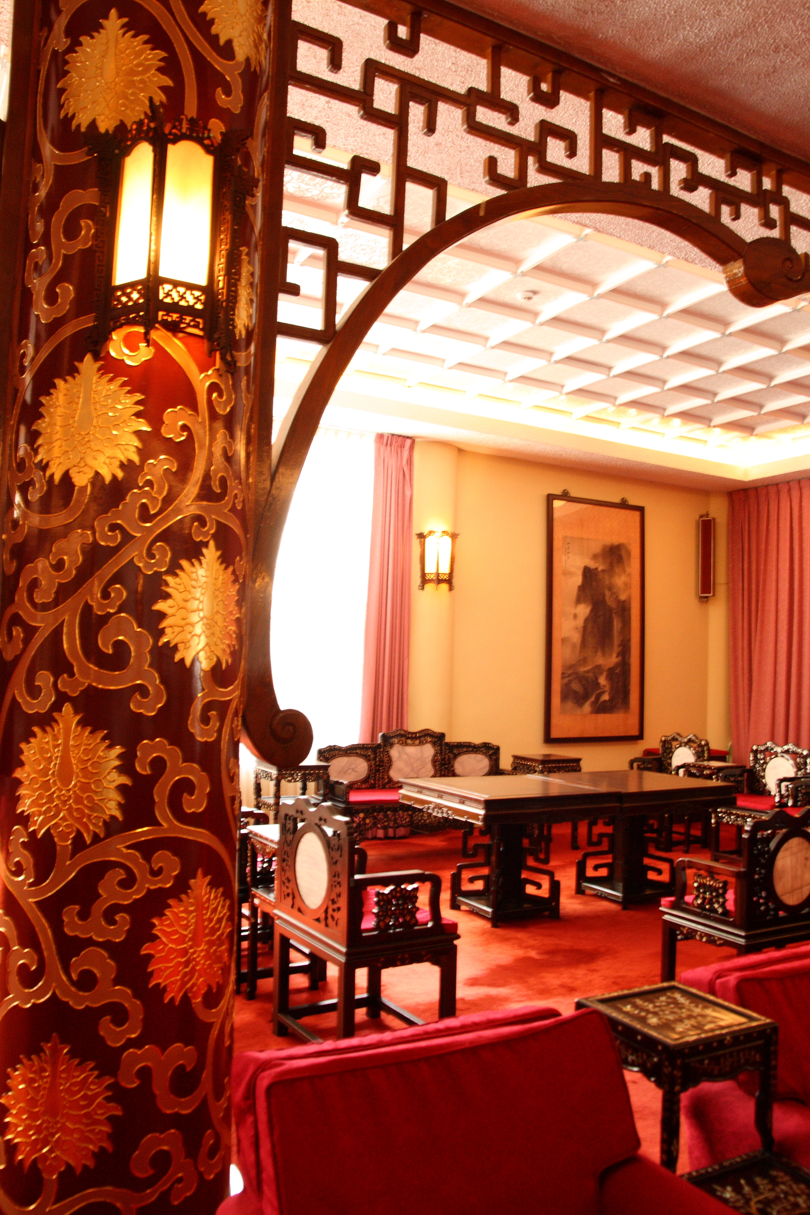 Interior of Chung-Shan BuildingChung-Shan Building, Yangmingshan, Taipei City.